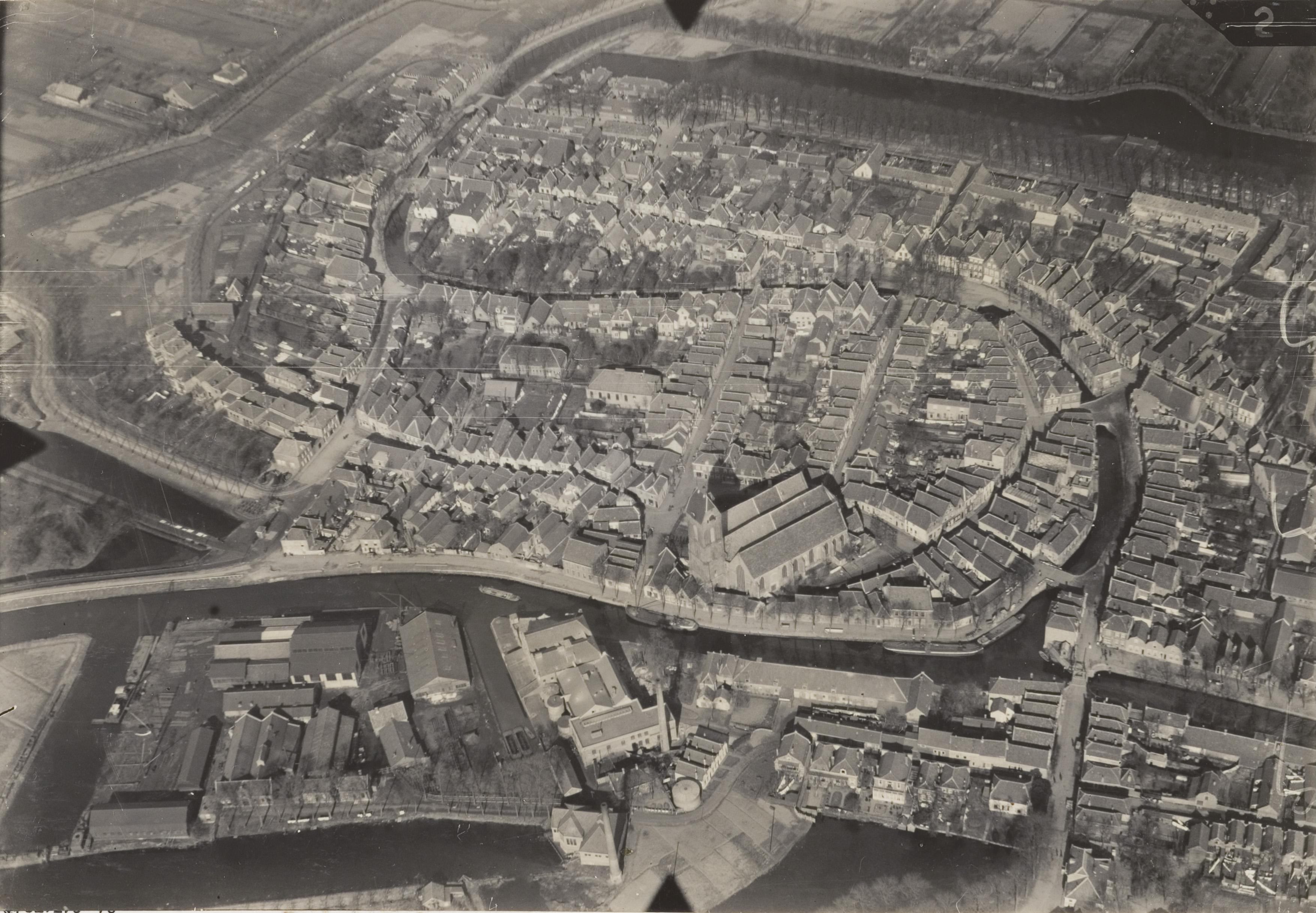 Aerial photograph of Oudewater, The Netherlands.